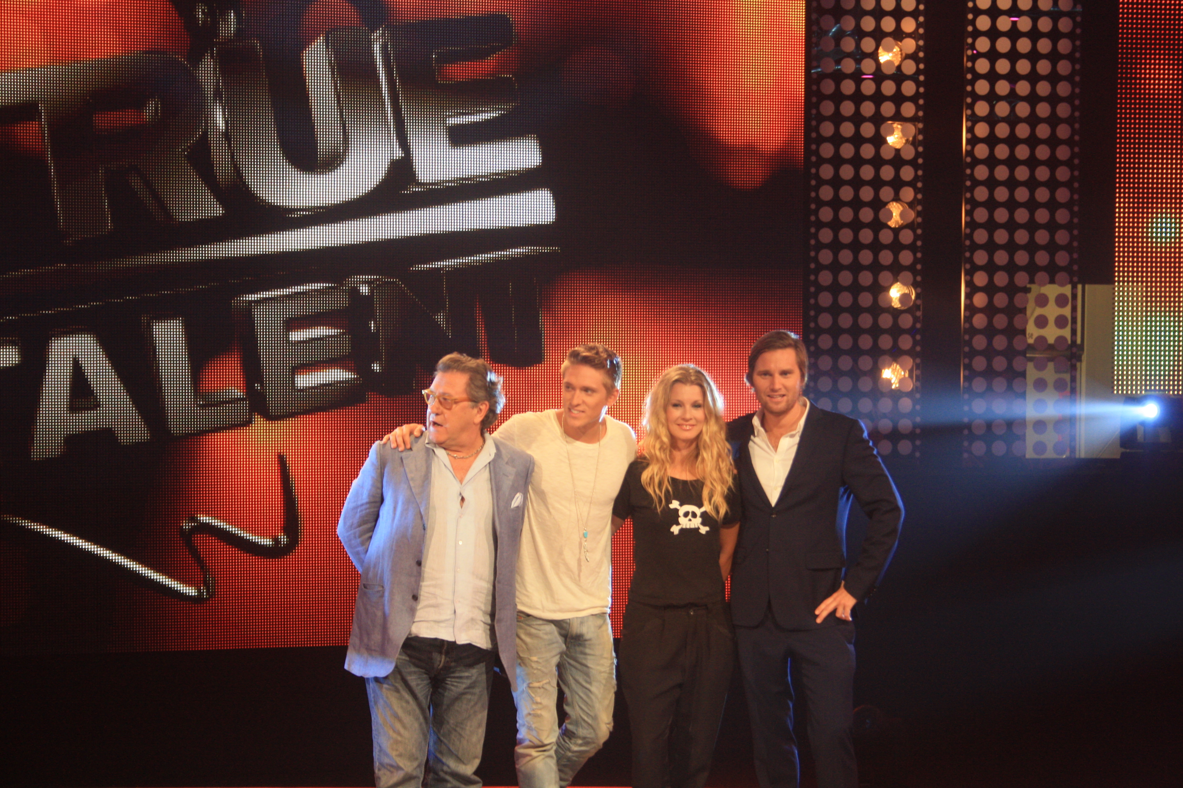 Inside at the TV program "True Talant" with the host and coaches